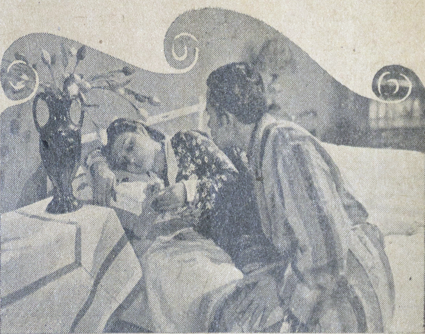 Scene from Lintah Darat